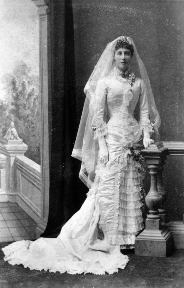 Margaret Murray Murray-Prior is pictured in her wedding dress and veil. Her ornate dress had a train, ruffles on the bodice and skirt, and was draped at the hipline at the front. She wore a floral corsage and had a floral headpiece. This portrait was taken in the studios of J. Deazeley, one of Brisbane's leading photographers.